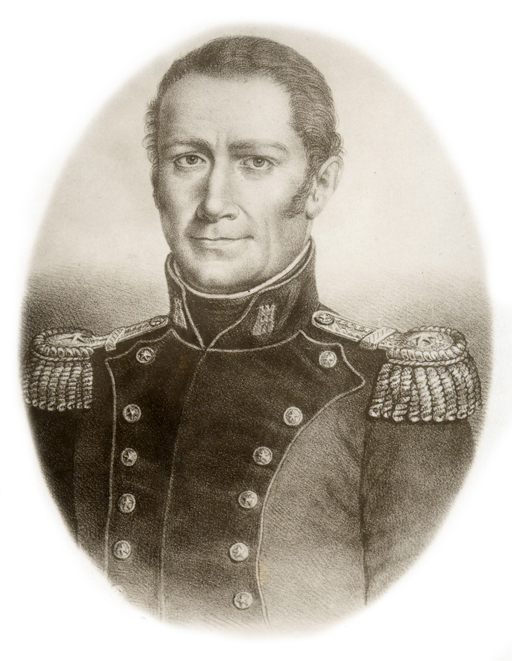 Portrait of Colonel Engineer of Chilean Army Juan Mackenna